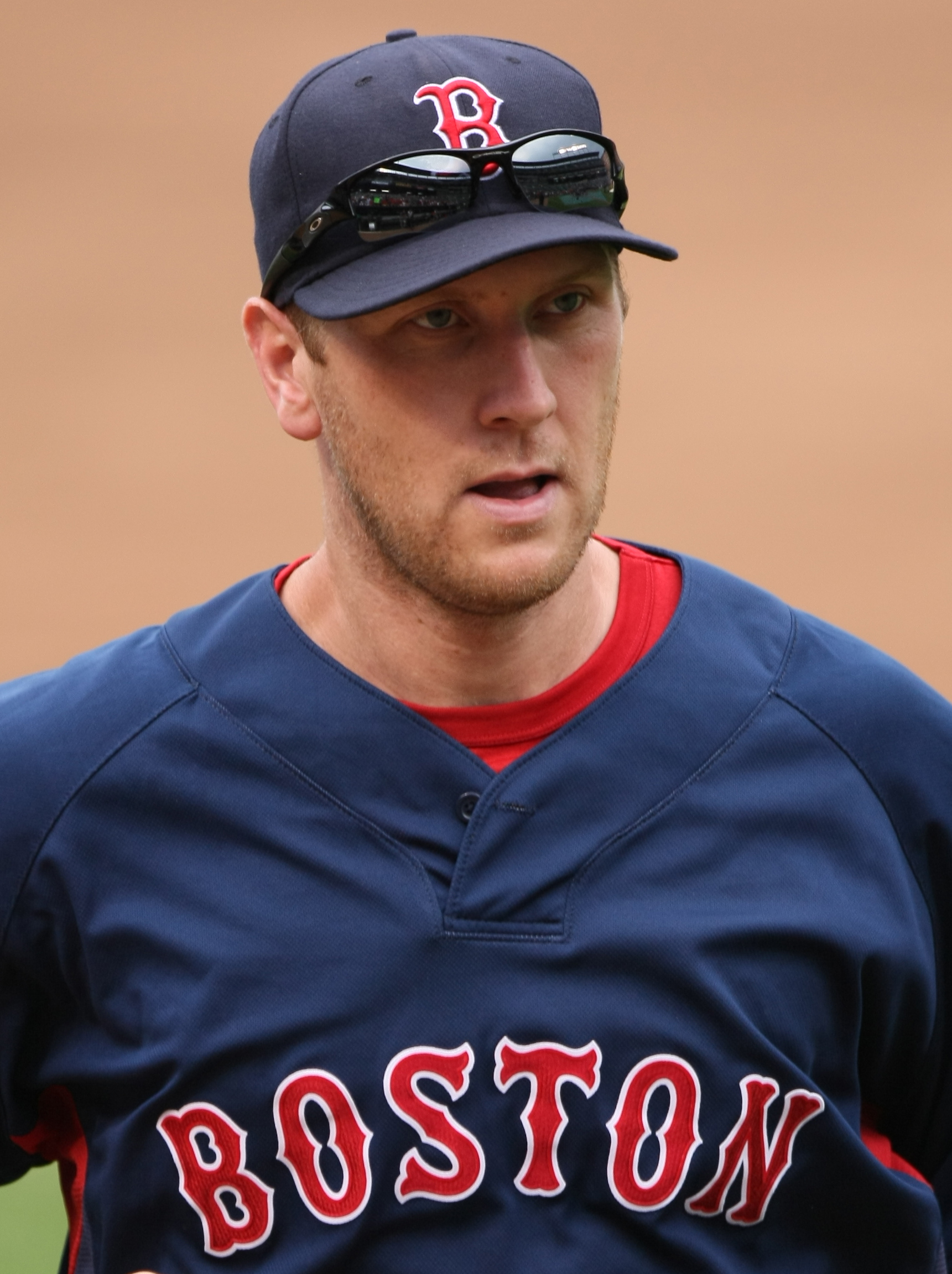 Jason Bay at a game between Orioles and the Red Sox.